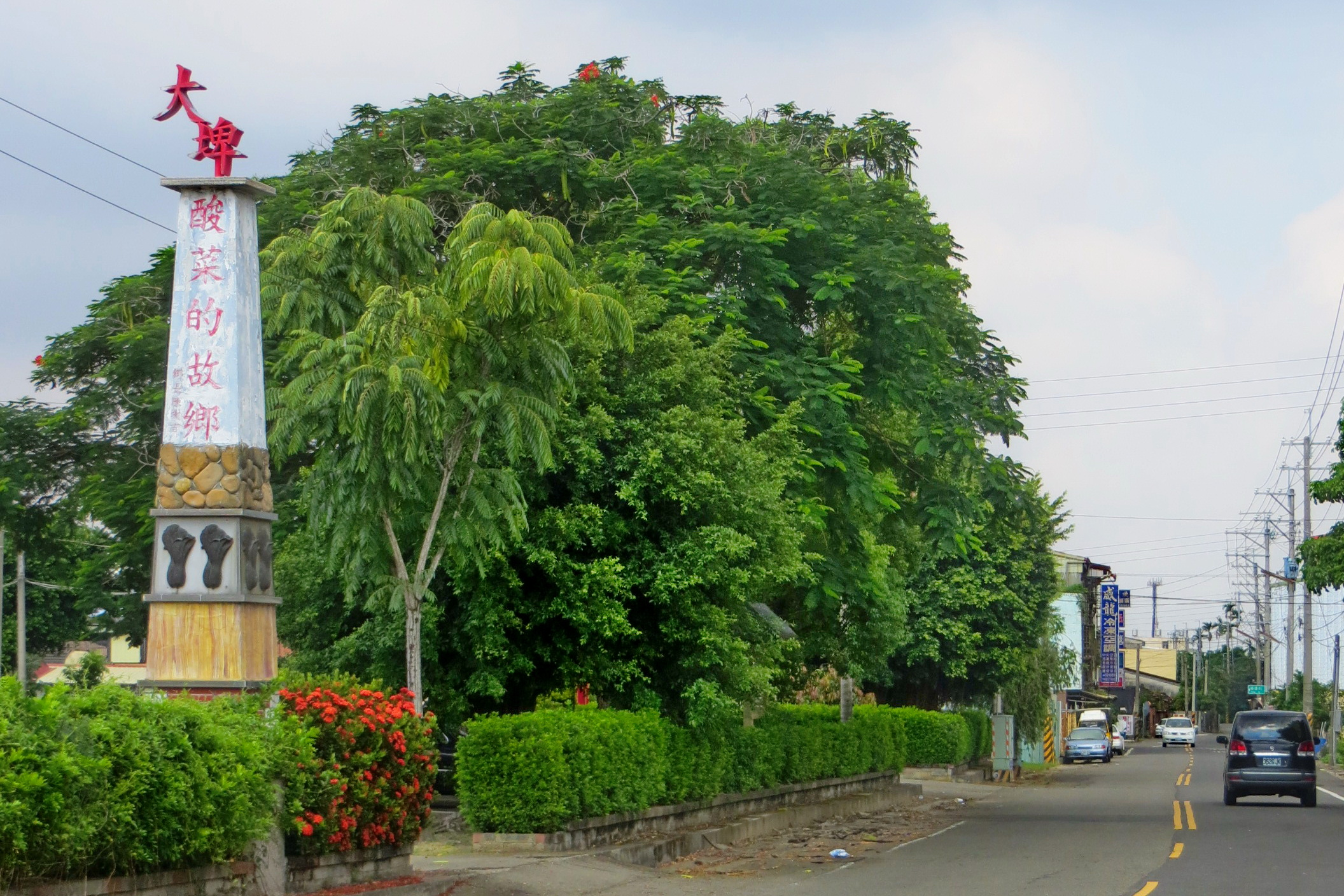 Dapi Township, Yunlin County, Taiwan.